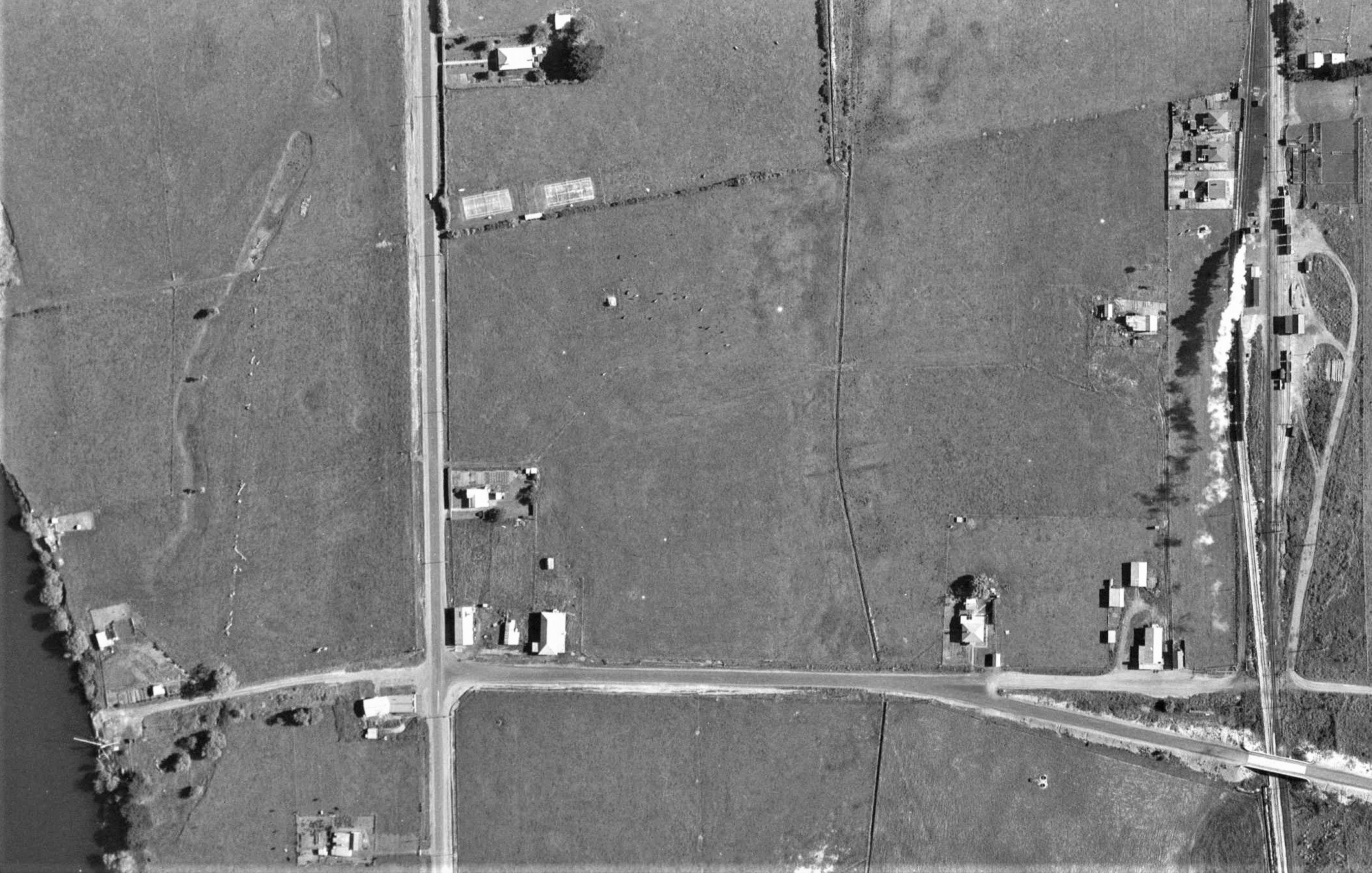 Waikato Expressway now runs just to the west of the North Island Main Trunk railway. The station closed in 1978